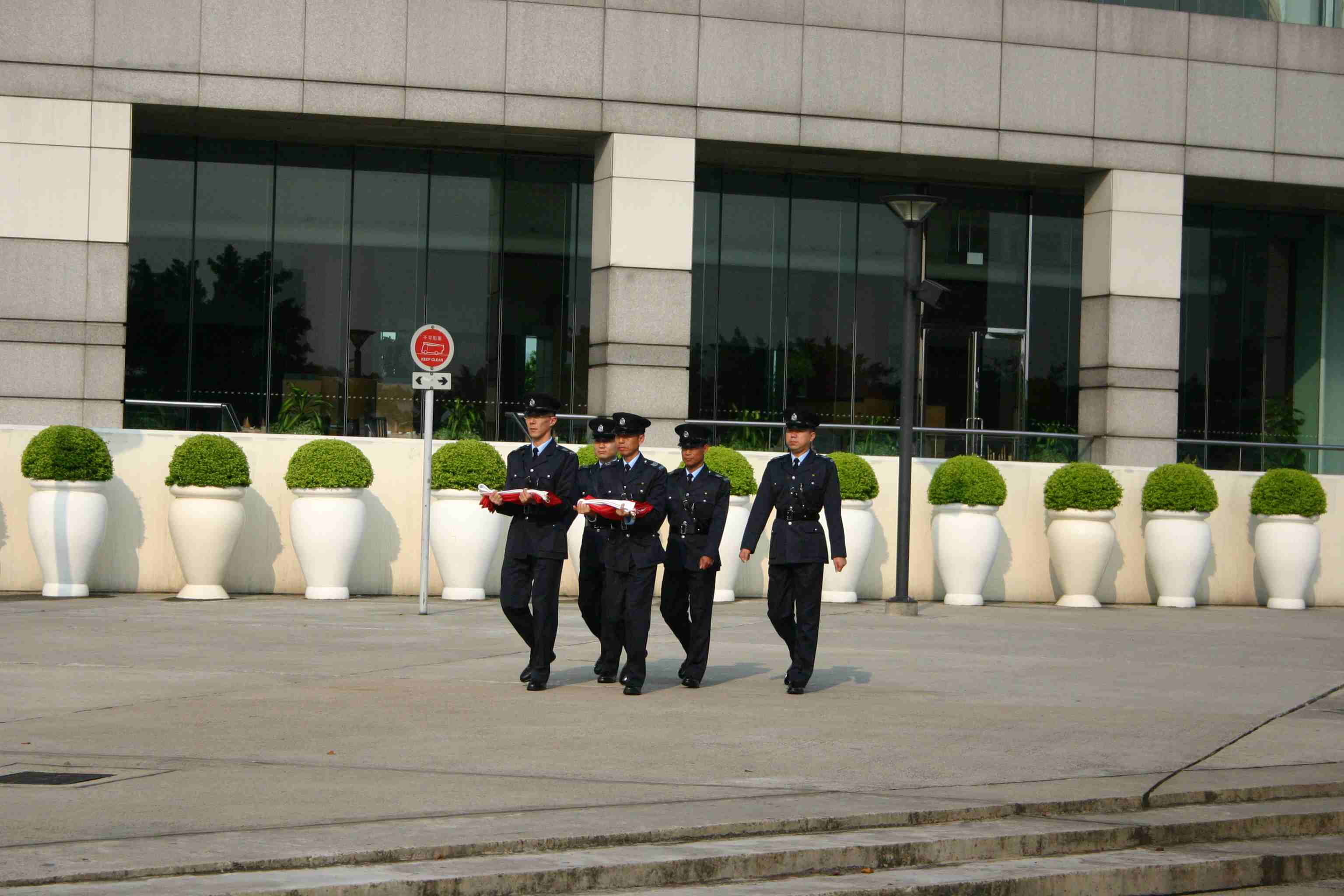 Photo of a Hong Kong SAR flag ceremony. The picture was taken by Ernie Chan, who has stated in an email to me that the photos are under the GFDL license.